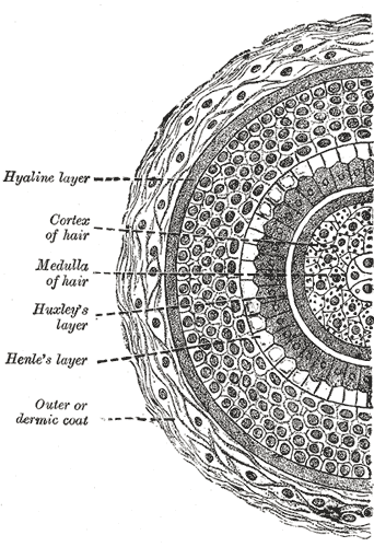 hyaline layer, cortex of hair, medulla of hair, Huxley's layer, Henle's layer, Outer or dermic coat